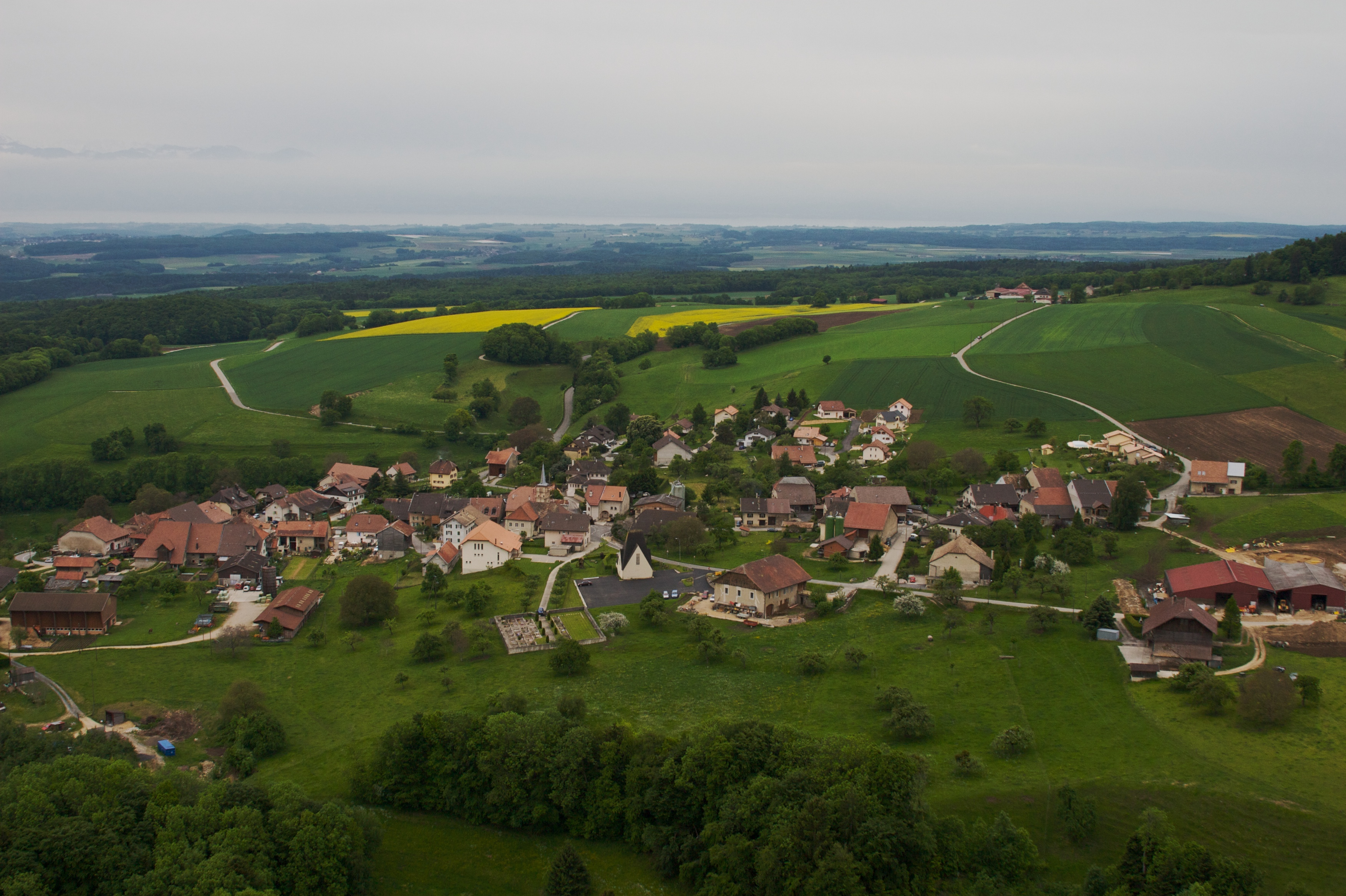 The village of Juriens, with some colza fields on the back. (vaud, switzerland)